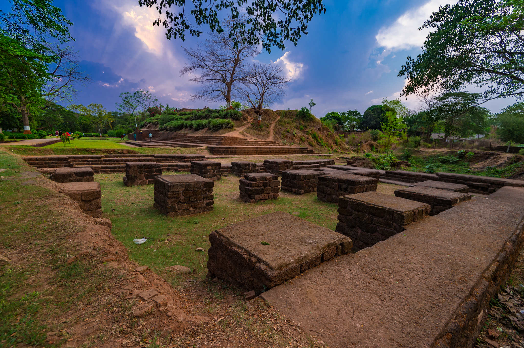 Barabati Fort - Barabati Fort is a 14th-century fort built by the Ganga dynasty near Cuttack, Odisha. The ruins of the fort remain with its moat, gate, and the earthen mound of the nine-storied palace, which evokes the memories of past days.